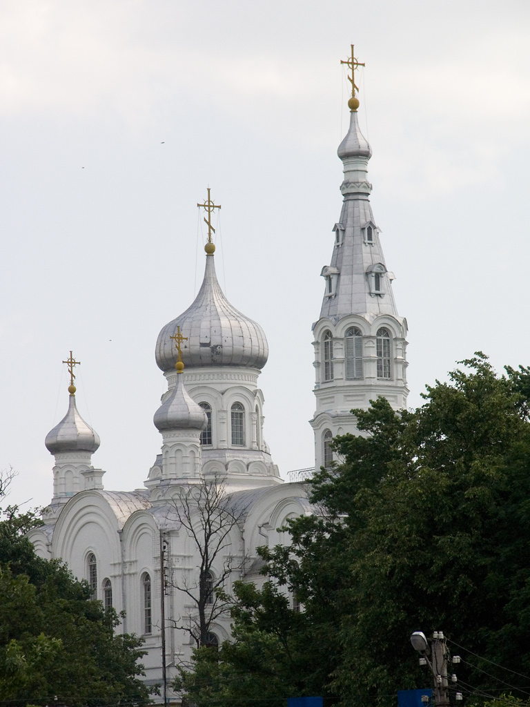 Kamyanyets, St Simeon Stylites Church.